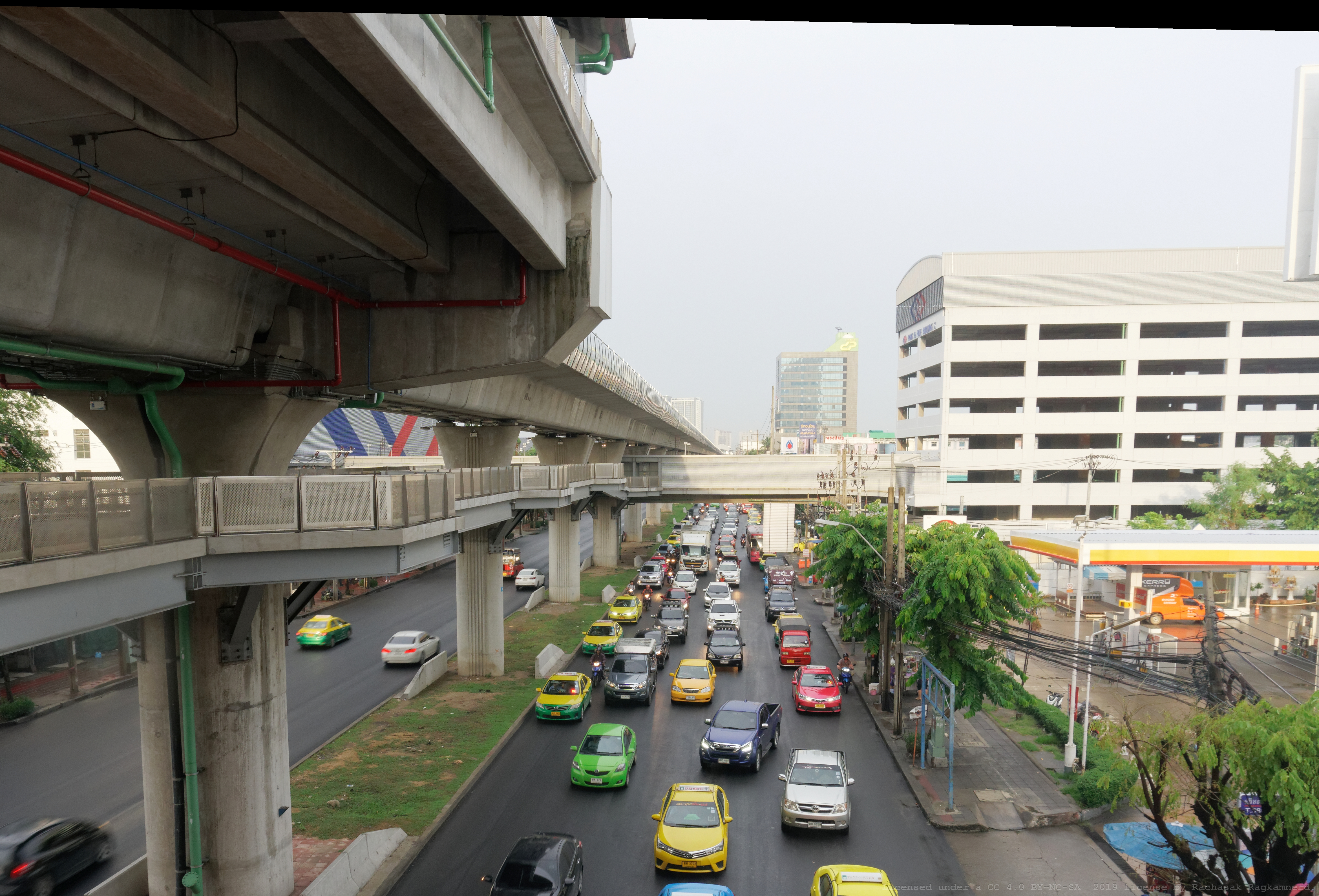 MRT Lak Song station - Park&ride buildings' skyway connecting another park&ride building on the opposite. Below is the Phetkasem road. You can see the pedestrian bridge from the station to the skyway.